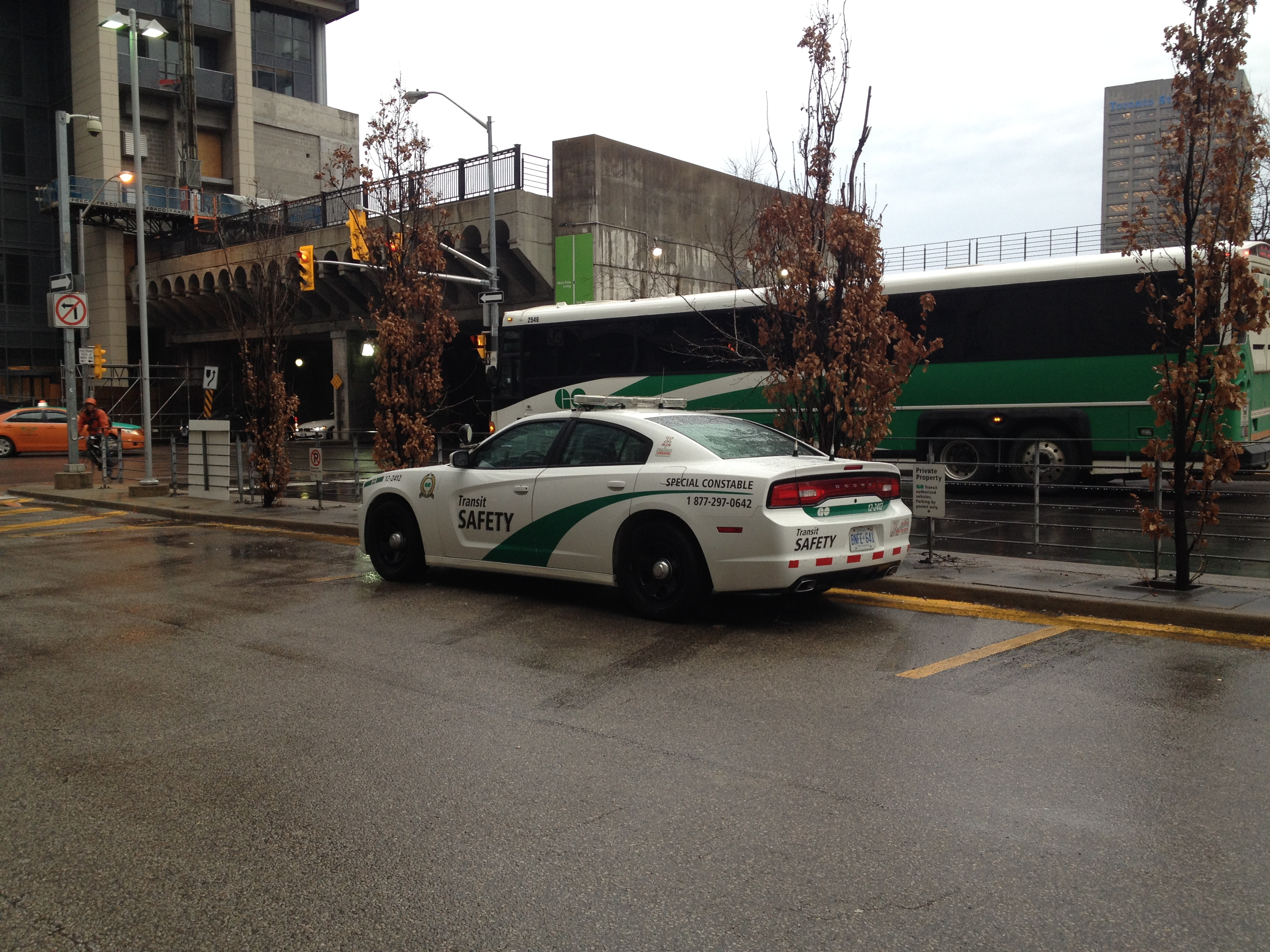 GO Transit Safety Special Constable vehicle. Vehicle ID 12-2412, license plate BNFE 641.